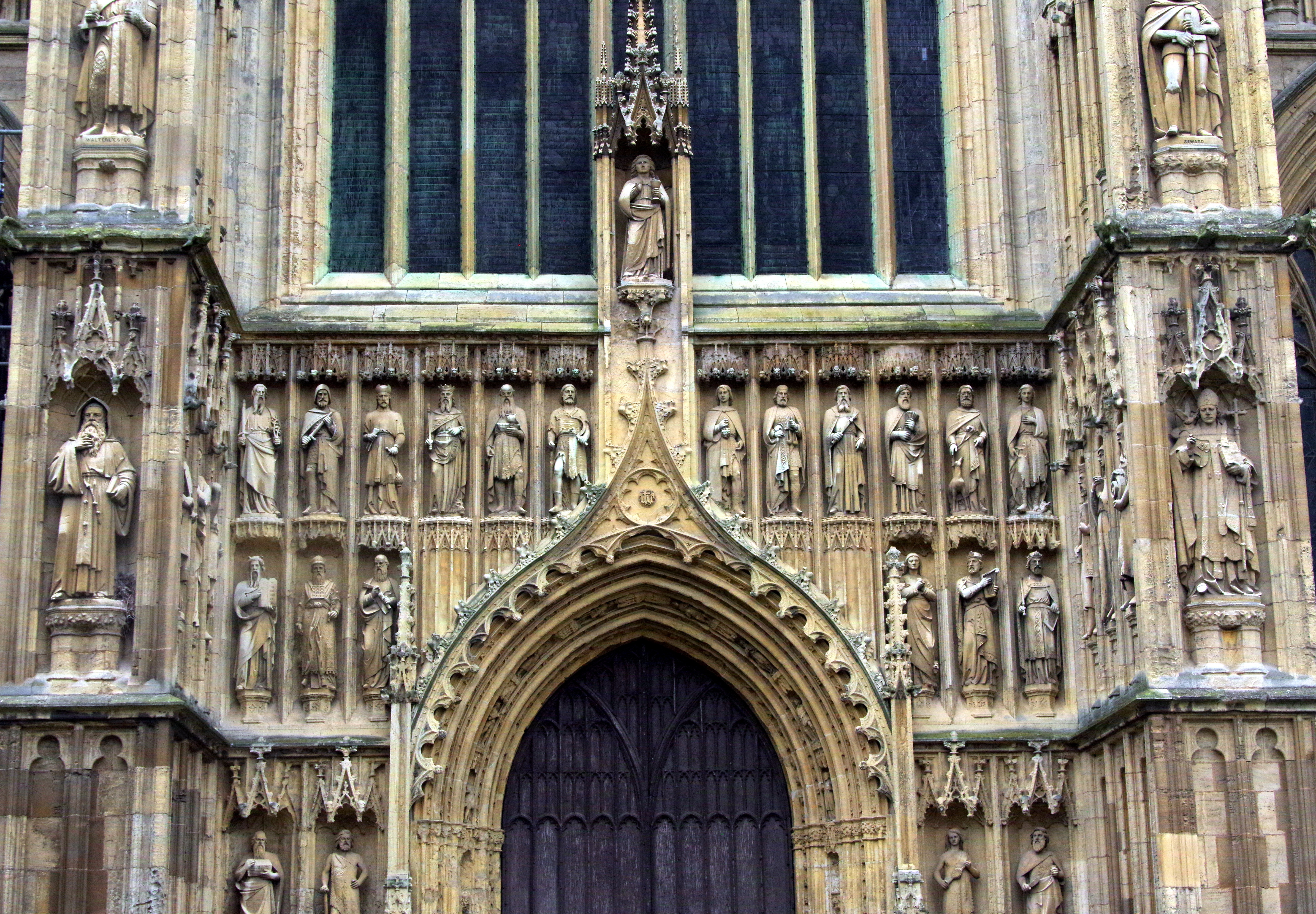 27.5.16 Beverley Minster, Beverley, East Riding of Yorkshire, England.